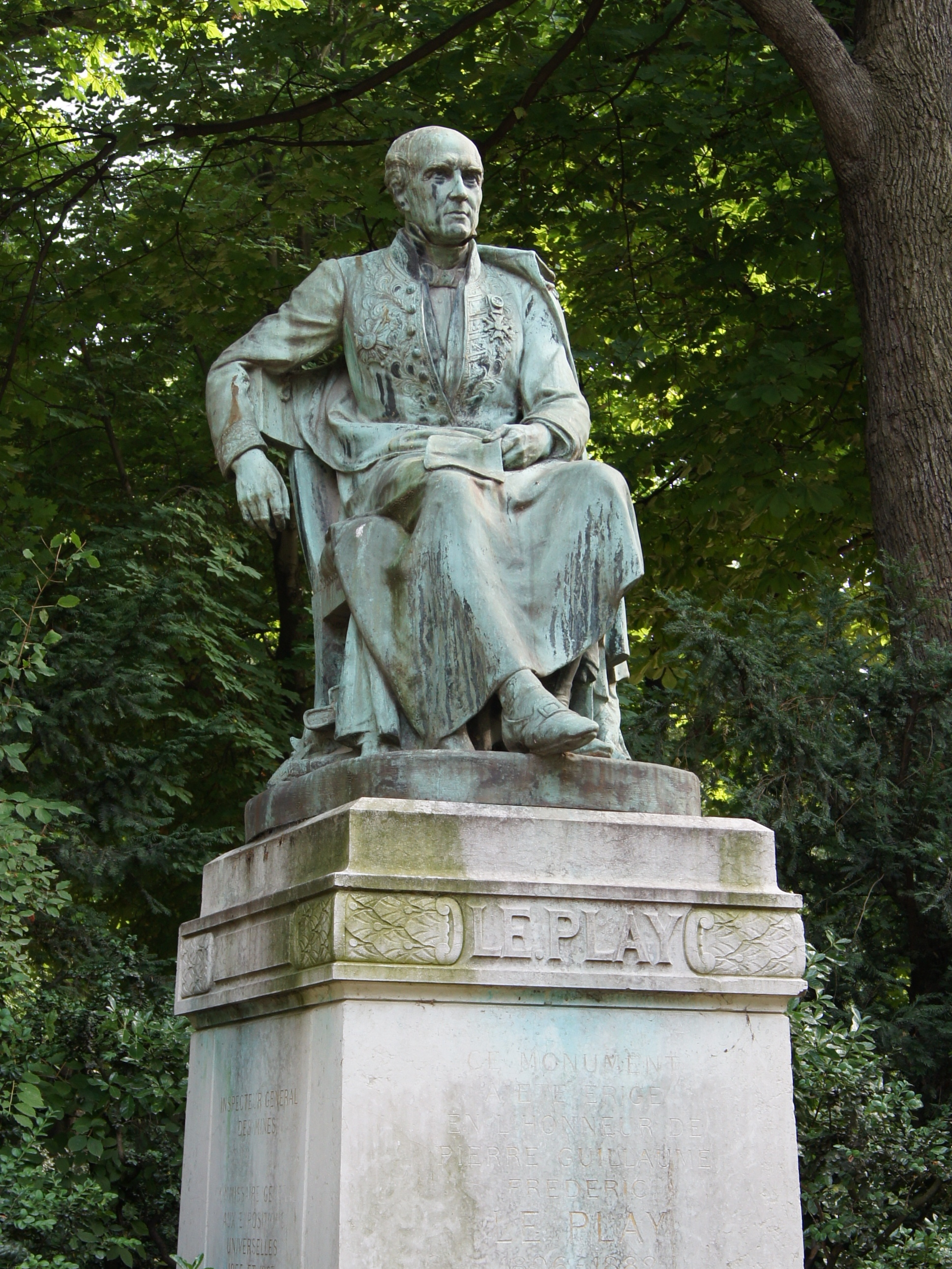 Statue of Frédéric Le Play by André-Joseph Allar (22 August 1845, 11 April 1926) In the Jardin du Luxembourg in Paris.